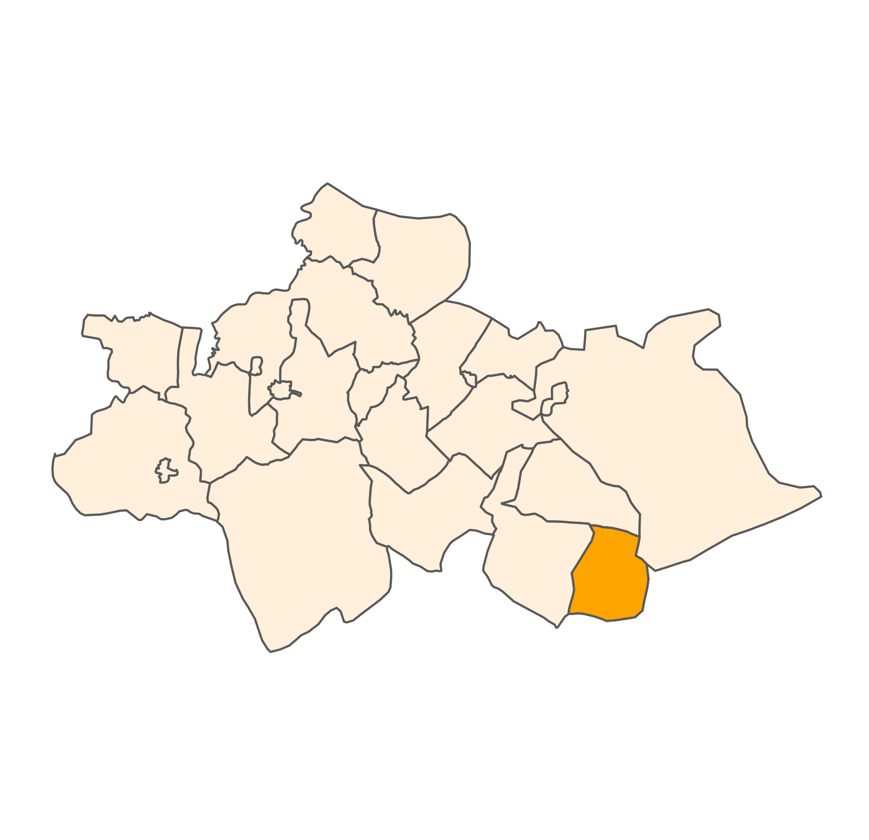 Commune (Orange), Sefrou Province (Antique White)